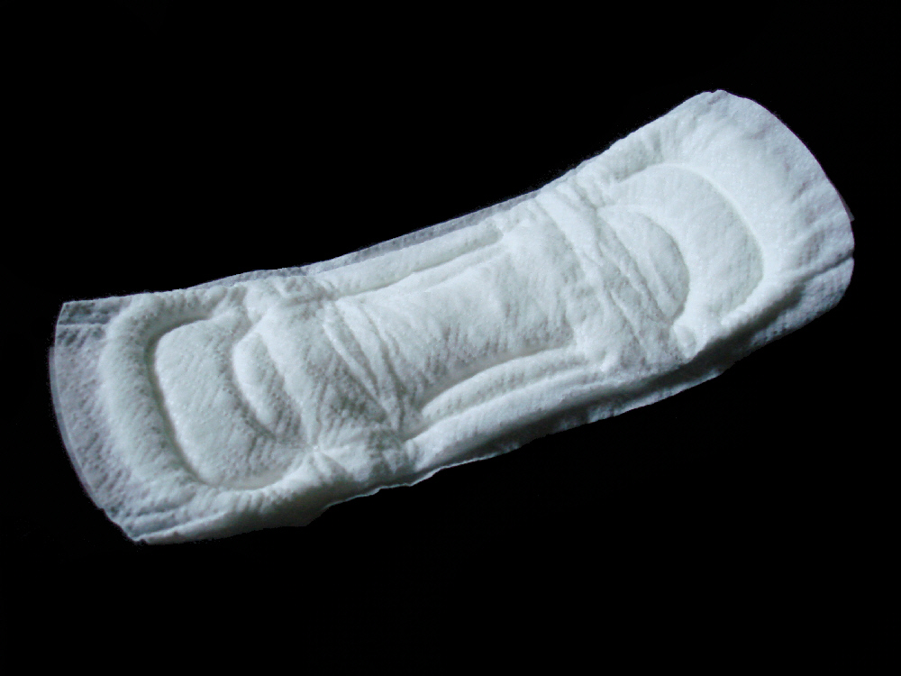 Sanitary towel